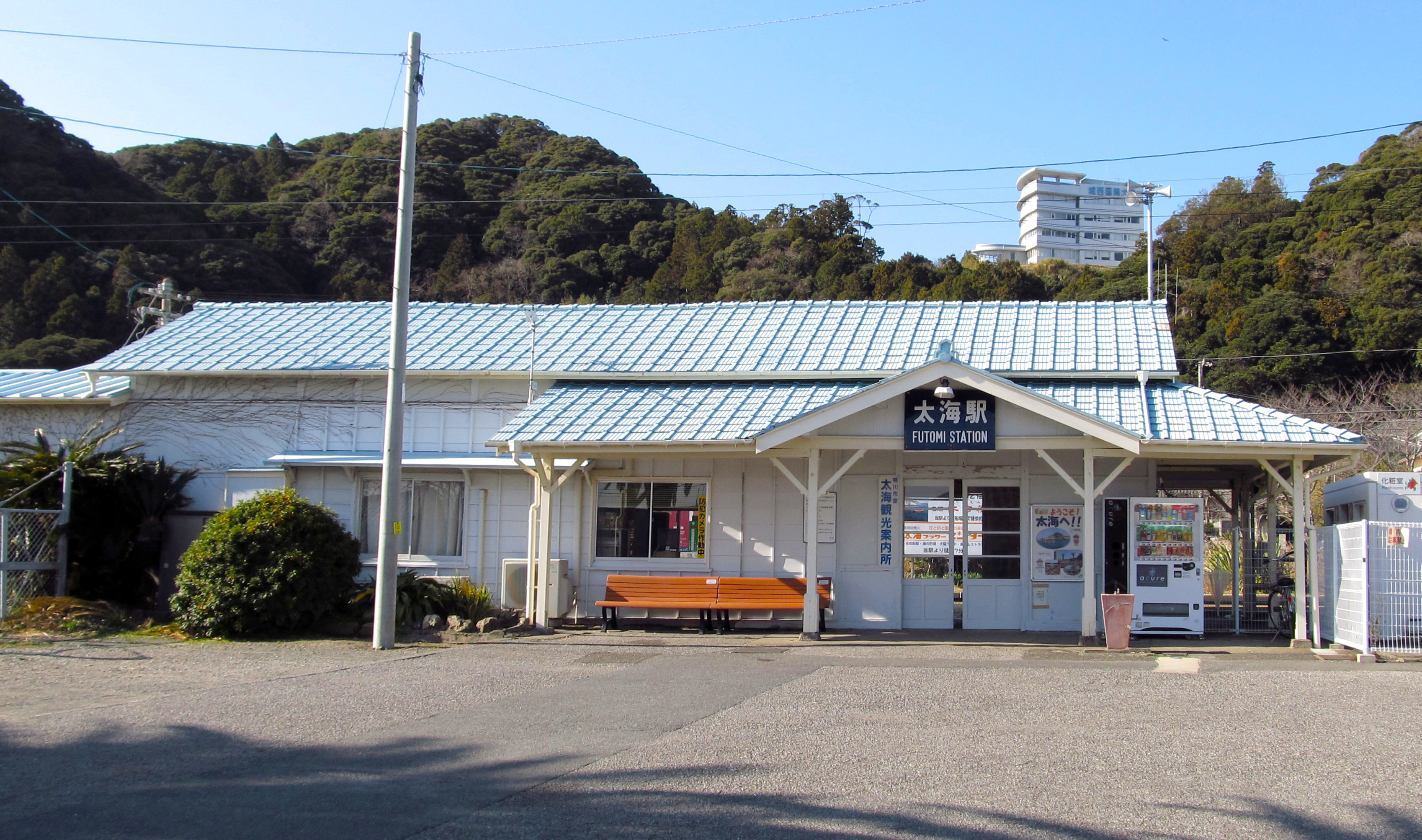 The building of Futomi Station on the Uchibō Line in Kamogawa city, Chiba prefecture, Japan